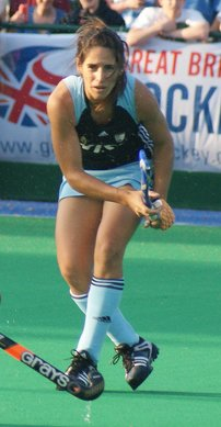 Mariana Rossi player of Las Leonas, Argentina national field hockey team.